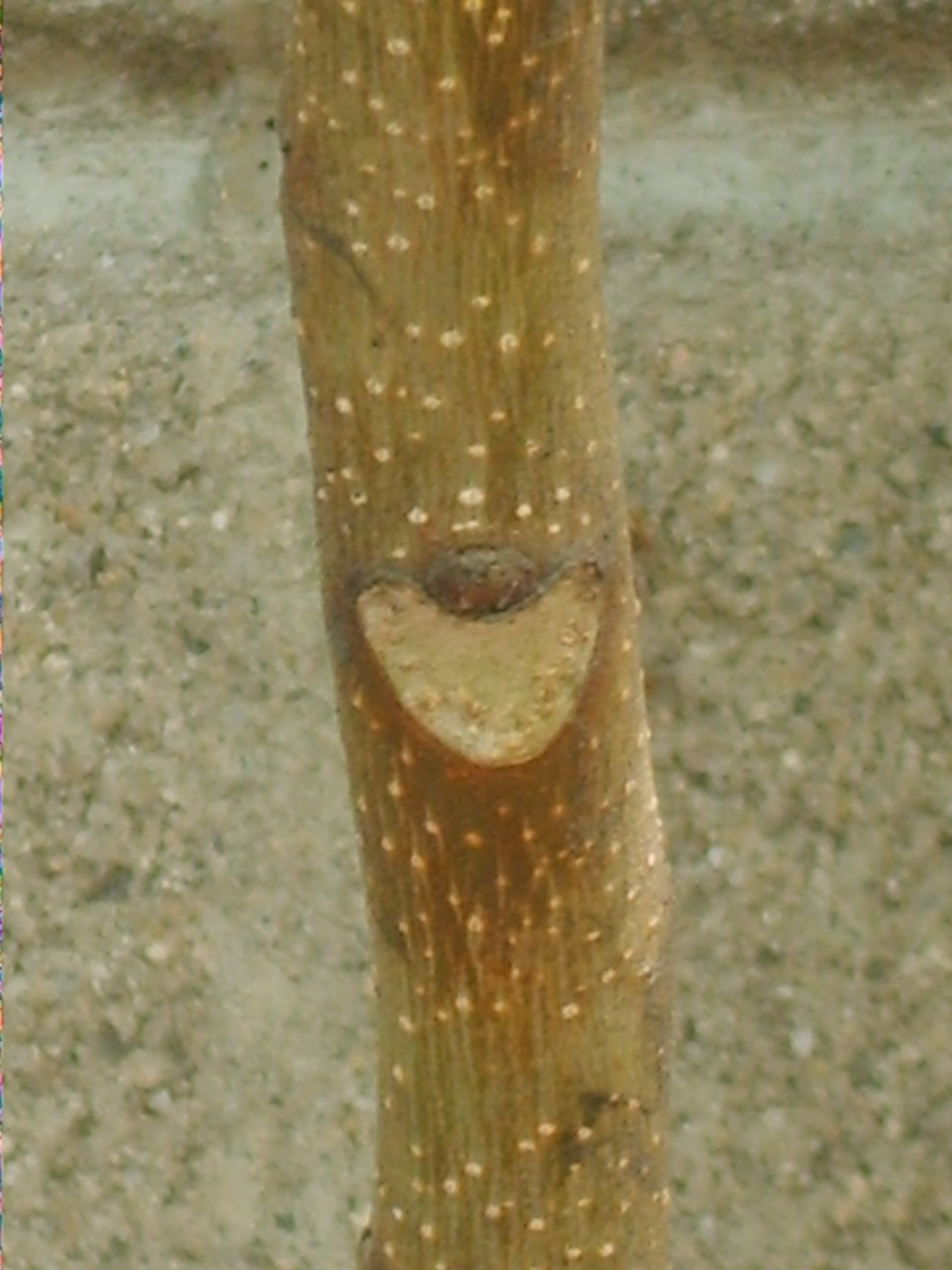 Ailanthus altissima's scar like eye of tiger in Yonsan Seoul. 용산 미군 부대 어느 담벼락 아래 사는 어린 가죽나무.